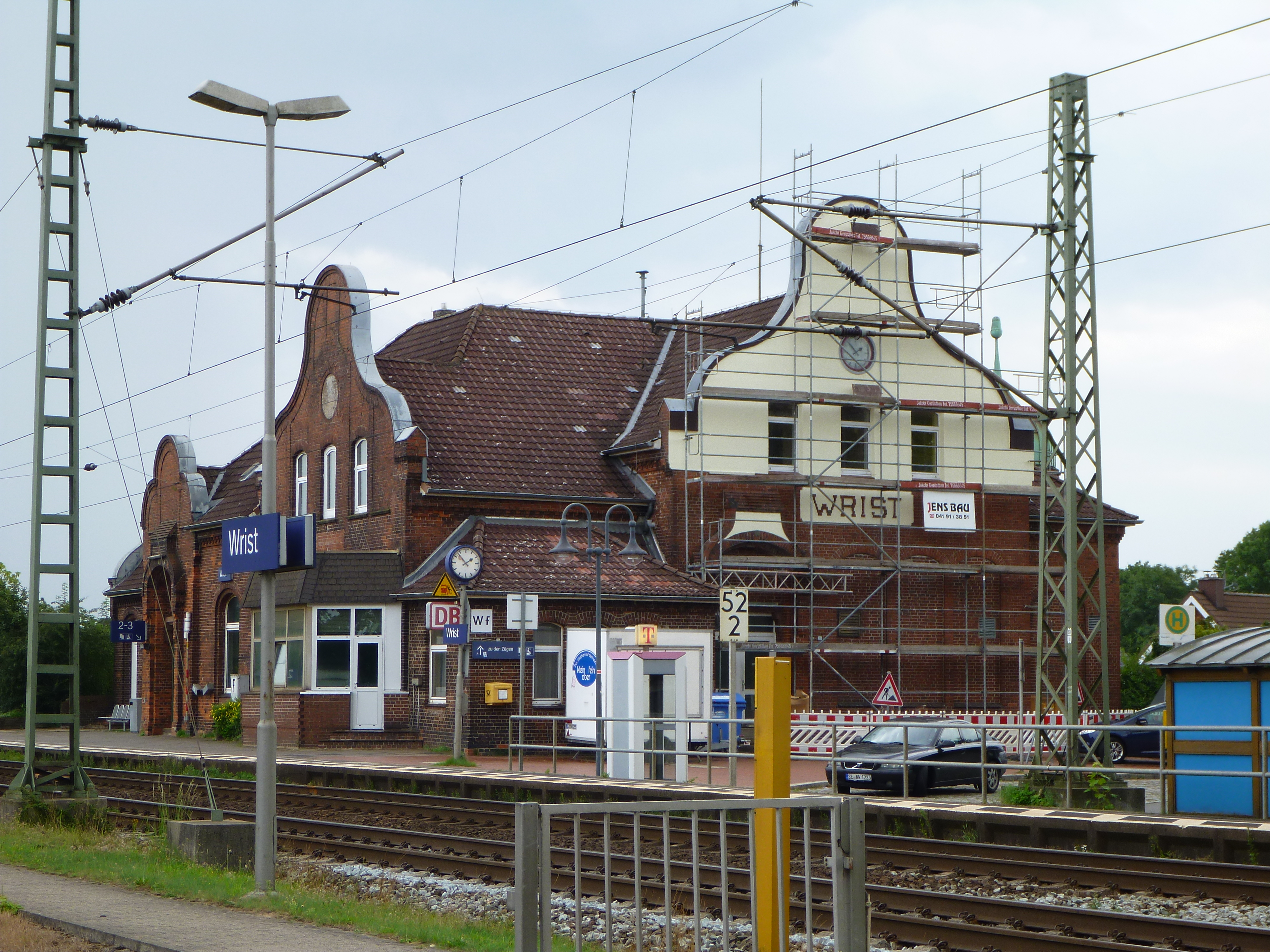 The main building of the train station in Wrist from south